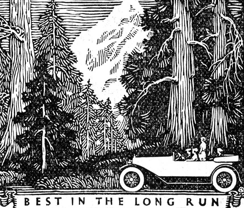 "Beauty that is strong and strength that is beautiful",was the theme of the Goodrich ad in the September 1920 National Geographic The Silvetown cords had an adjustment basis of 8,000 miles; the fabric tires, 6,000 miles. I recall Dad telling me that 5,000 miles was the average tire life on the Dodges he drove in the early 1920's..